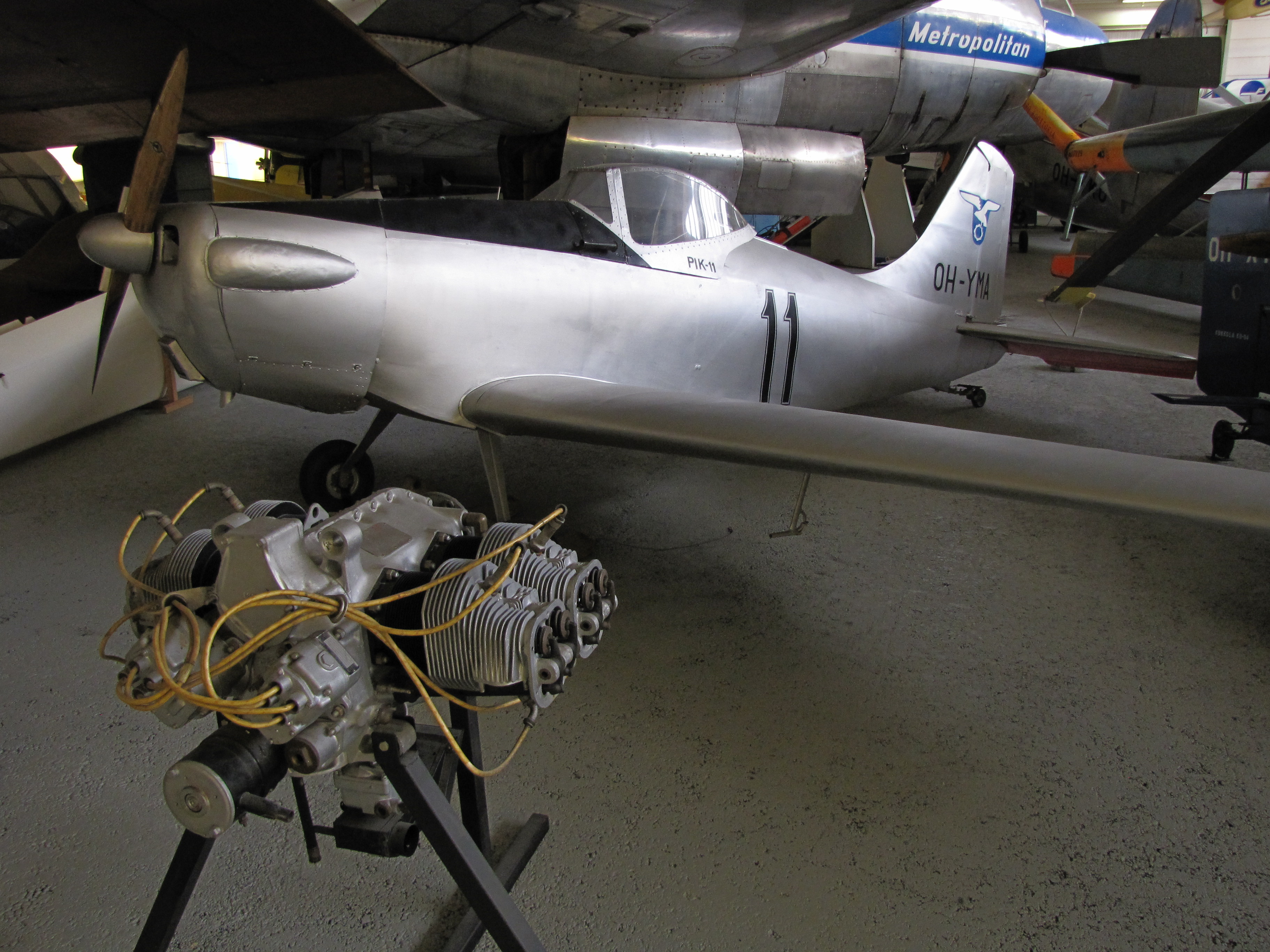 PIK-11 Tumppu sport aircraft in Finnish Aviation Museum. Continental A-65 engine. Serial number 1.